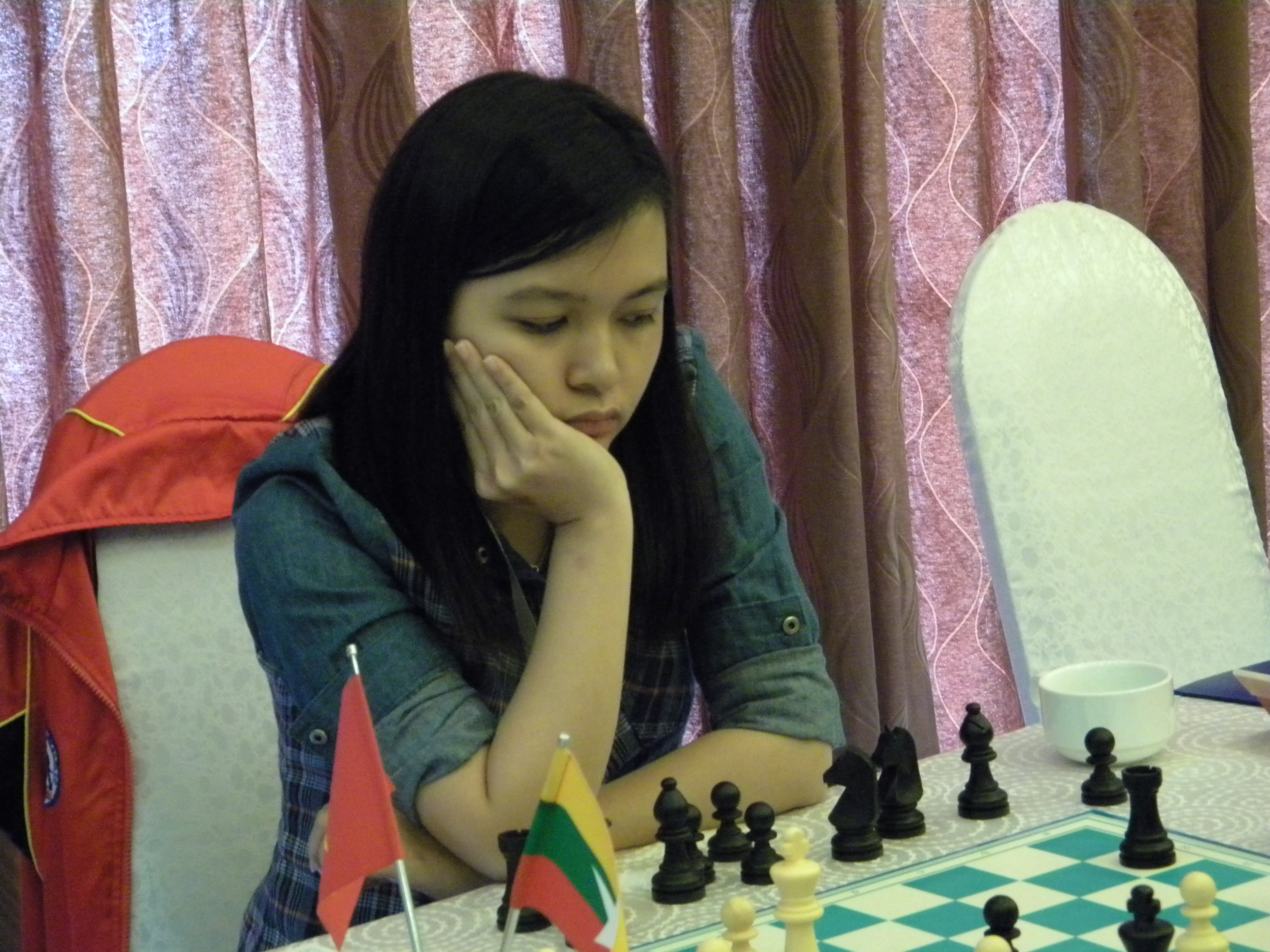 Nguyen Thi Mai Hung in HDBank chess tournament 2016